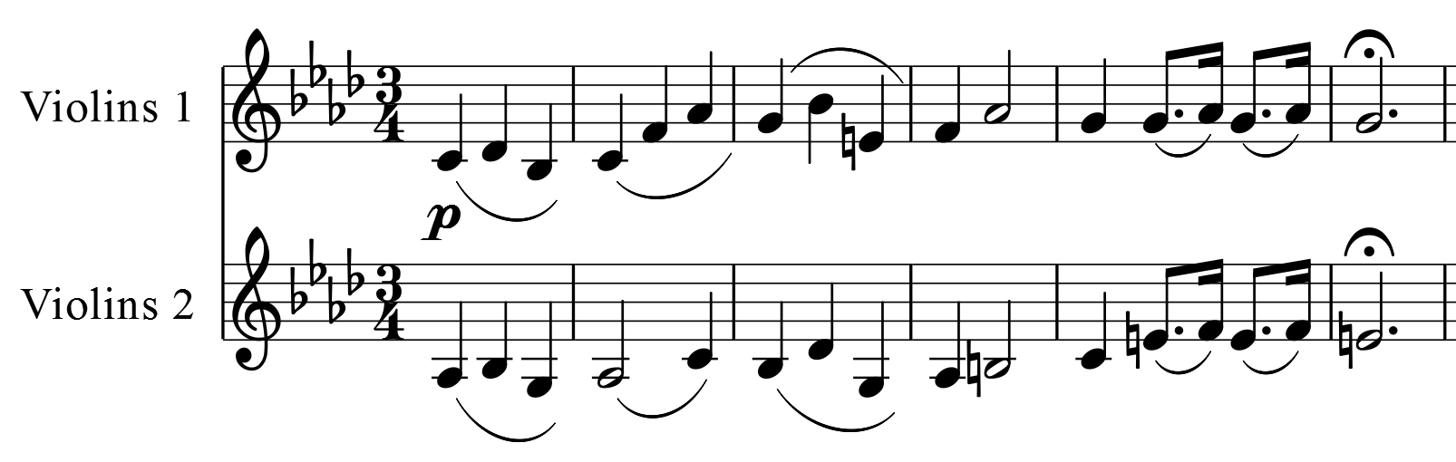 Joseph Haydn, Symphony No. 49, first movement, violins 1 and 2, bar 1-6